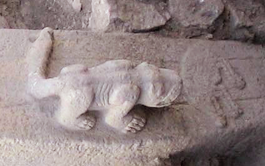 Gobeklitepe animal sculpture, circa 9000 BCE